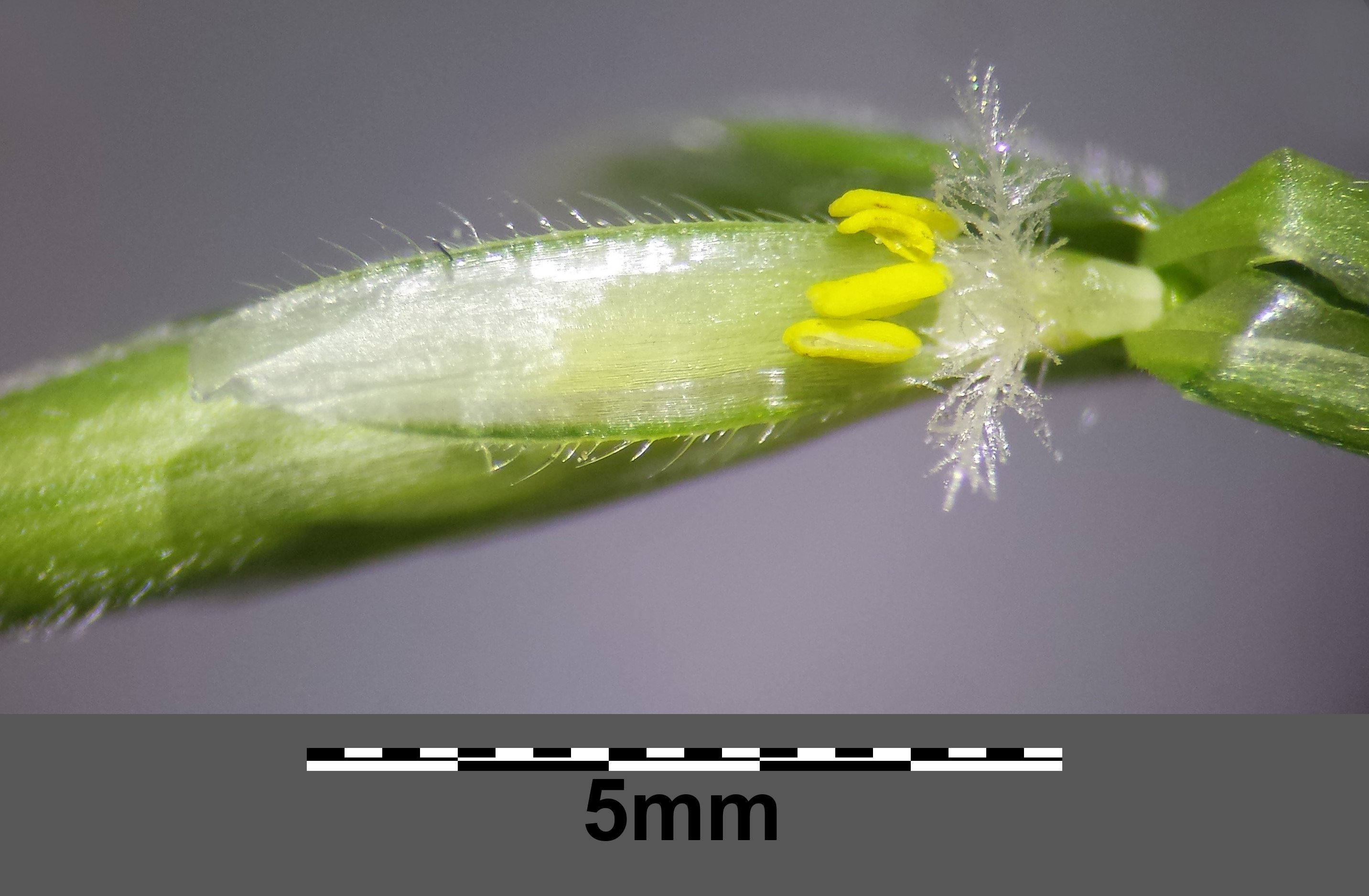 Flower (on the right) with stamina and styli and fringed palea (on the left) Taxonym: Bromus hordeaceus subsp. hordeaceus ss Fischer et al. EfÖLS 2008 ISBN 978-3-85474-187-9 Location: Floridsdorf rail station, Vienna-Floridsdorf - ca. 160 m a.s.l. Habitat: ruderal area